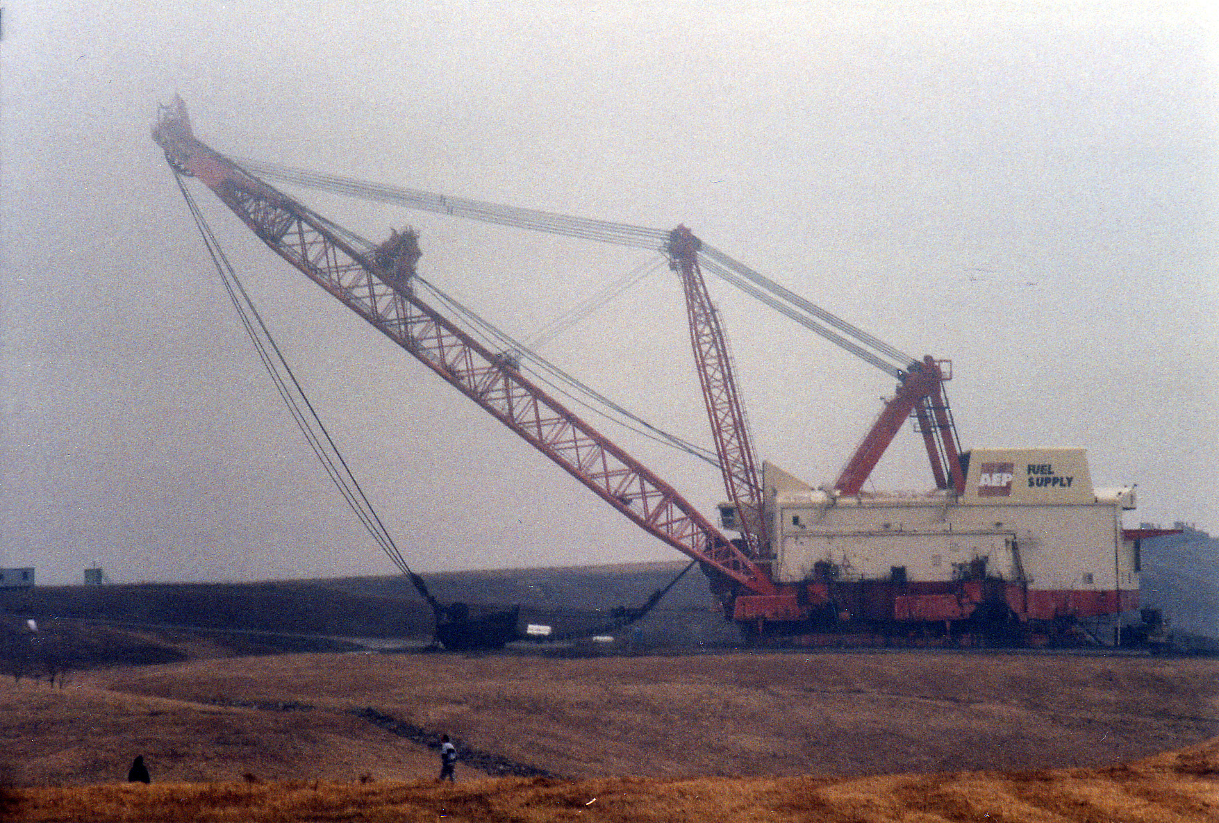 Side view of Big Muskie (4250-W) prior to its demolition.